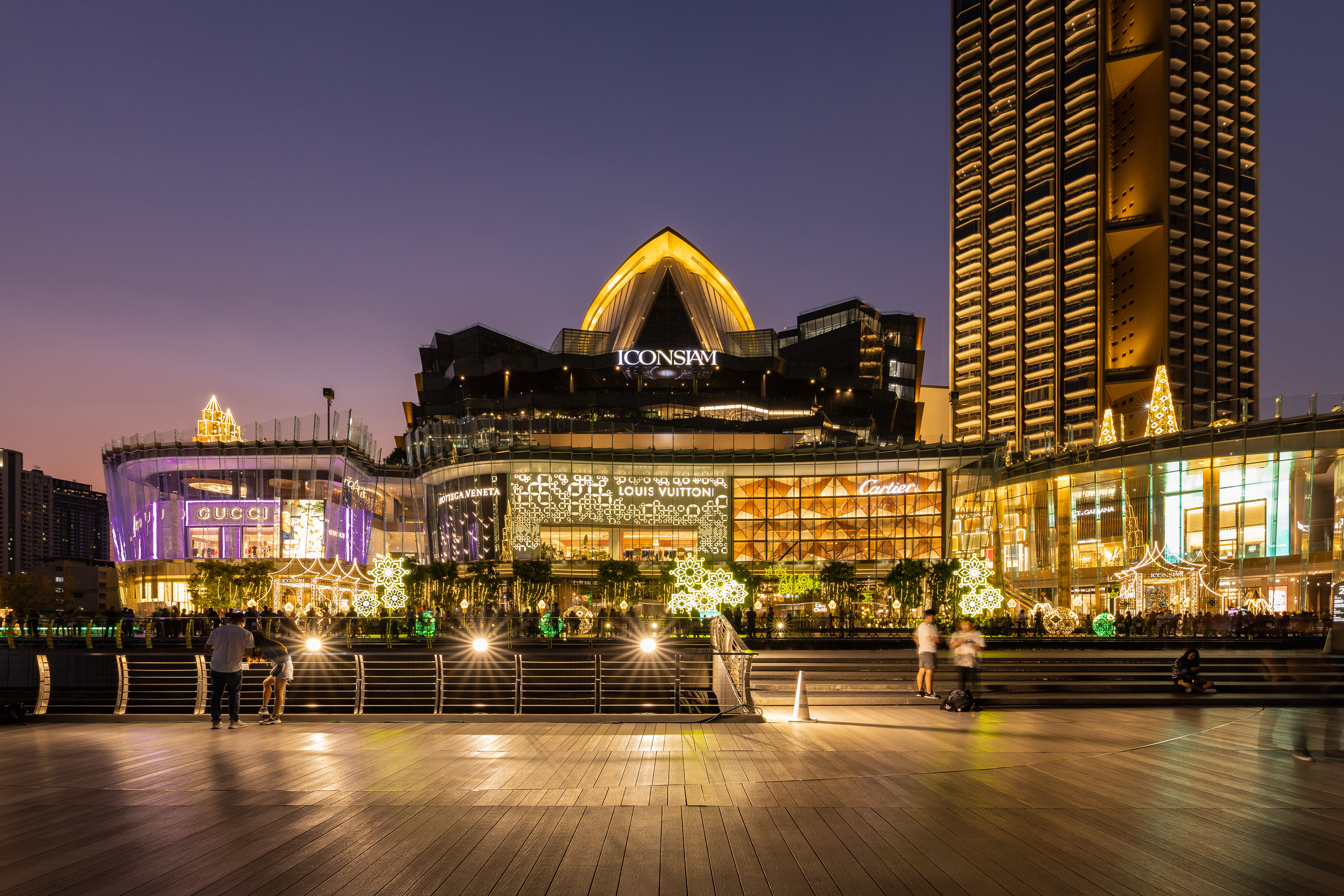 Iconsiam, stylized as ICONSIAM, and ICS is a mixed-use development on the banks of the Chao Phraya River in Bangkok, Thailand.[1] It includes one of the largest shopping malls in Asia, which opened to the public on 10 November 2018,[2] as well as hotels and residences.